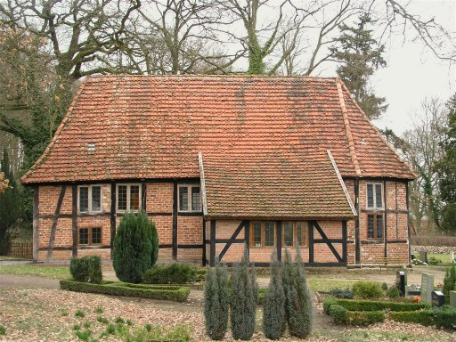 Kirche Consrade, Consrade church, Plate Germany